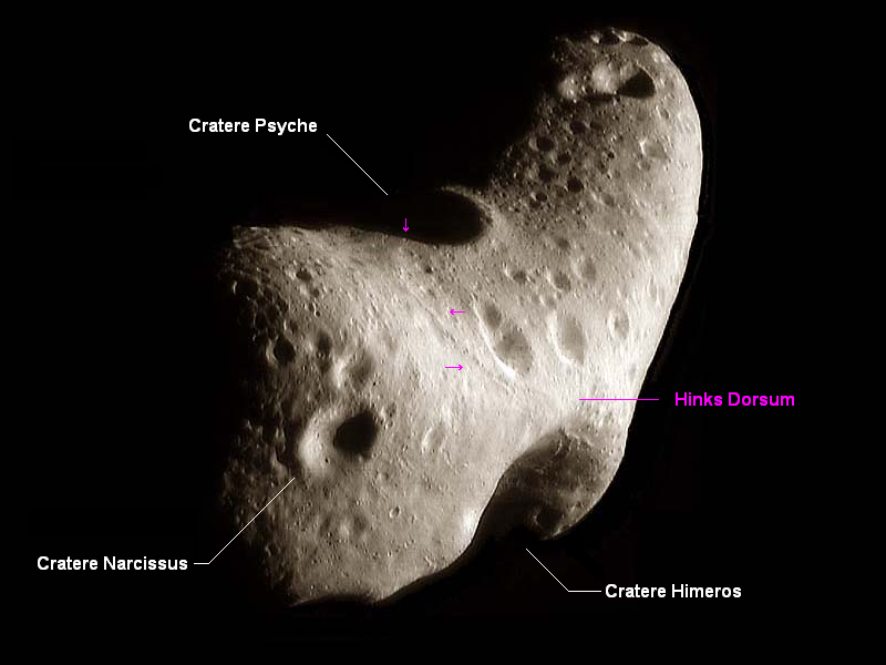 False color view of Original caption from NASA's Astronomy picture of the day...: :Asteroid Eros Reconstructed :Credit: NEAR Project, NLR, JHUAPL, Goddard SVS, NASA Explanation: Orbiting the Sun between Mars and Earth, asteroid 433 Eros was visited by the robot spacecraft NEAR-Shoemaker in 2000 February. High-resolution surface images and measurements made by NEAR's Laser Rangefinder (NLR) have been combined into the above visualization based on the derived 3D model of the tumbling space rock. NEAR allowed scientists to discover that Eros is a single solid body, that its composition is nearly uniform, and that it formed during the early years of our Solar System. Mysteries remain, however, including why some rocks on the surface have disintegrated. On 2001 February 12, the NEAR mission drew to a dramatic close as it was crash landed onto the asteroid's surface, surviving well enough to return an analysis of the composition of the surface regolith. In December of 2002, NASA made an unsuccessful attempt to communicate with the spacecraft after it spent 22 months resting on the asteroid's surface. NEAR will likely remain on the asteroid for billions of years as a monument to human ingenuity at the turn of the third millennium.